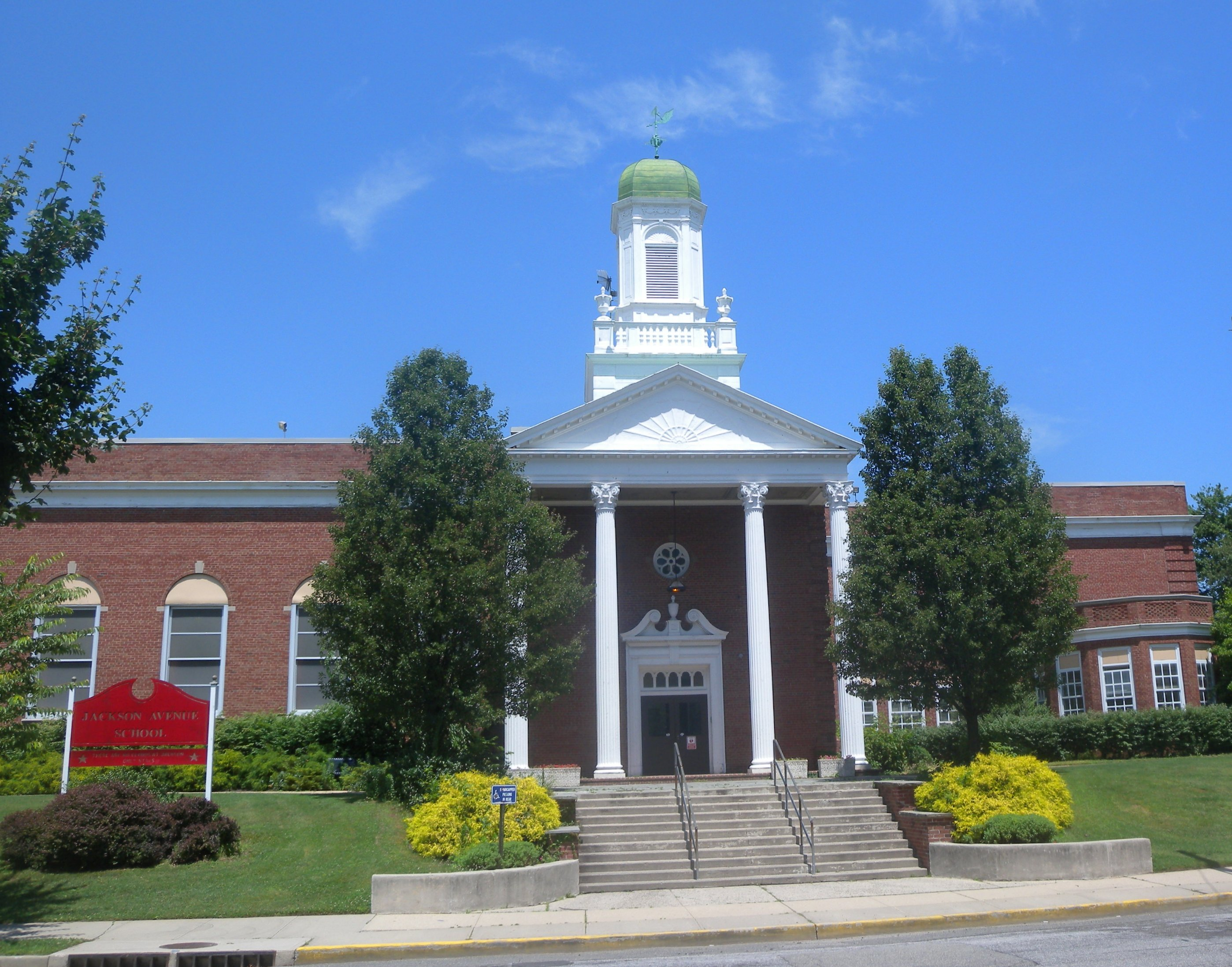 Looking north across Jackson Avenue at elementary school, on a sunny midday.